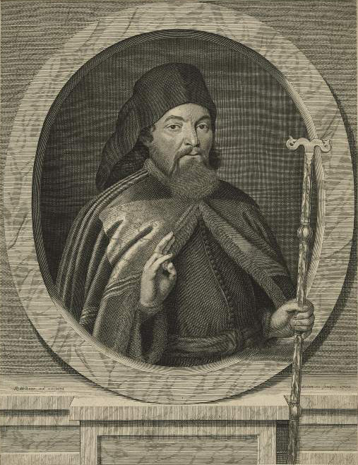 Portrait of Neophytos, Archbishop of Philippopolis (1689-1711).